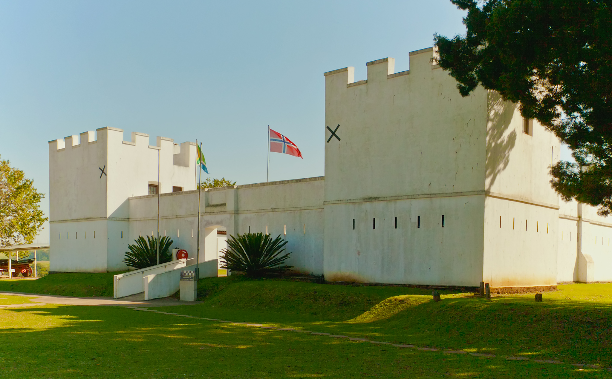 The front of the fort This media shows a South African Protected Site with SAHRA file reference 9/2/408/0001.